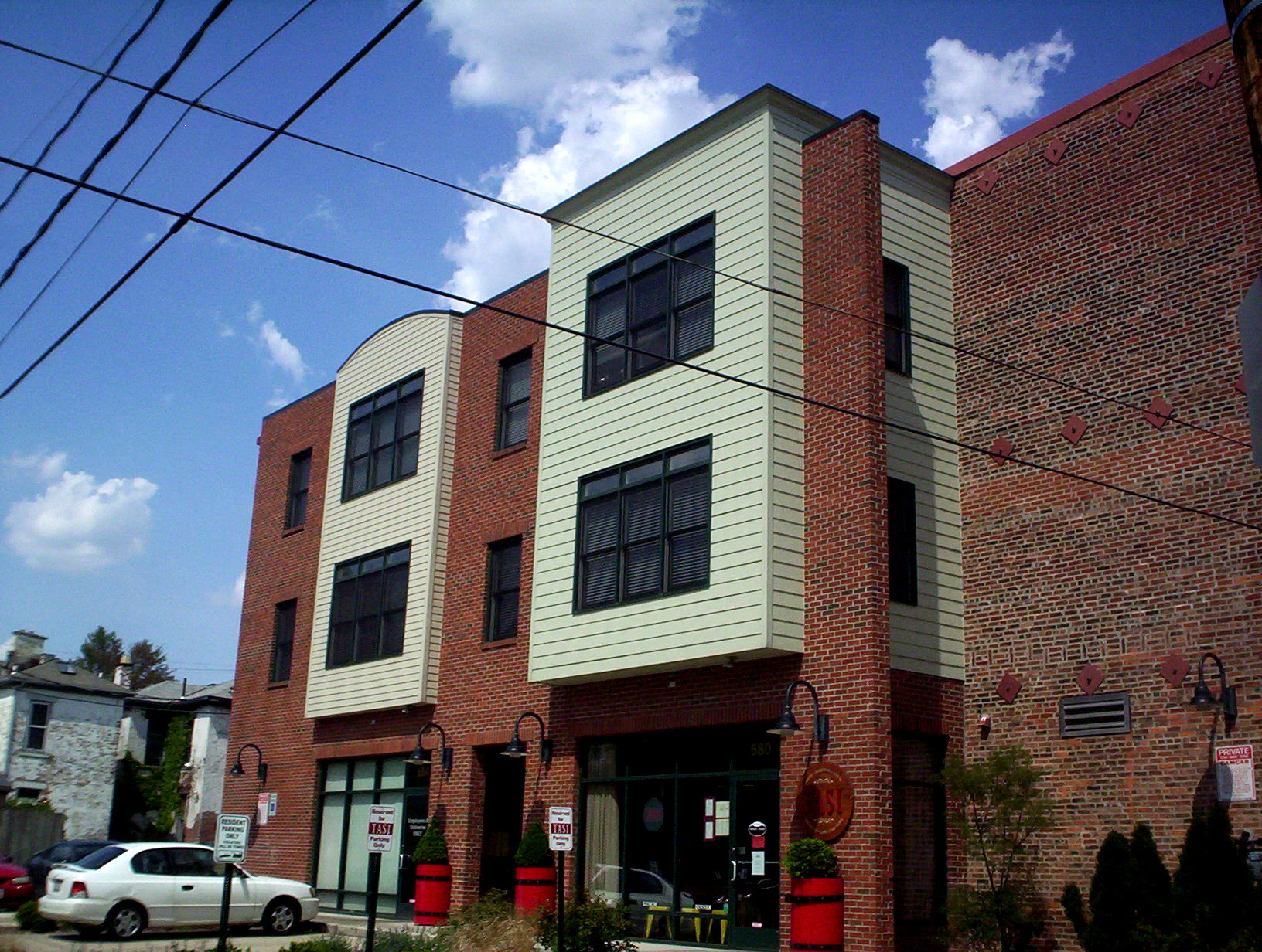 A local restaurant.